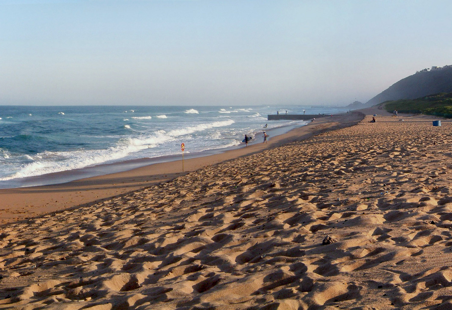 Anstey Beach, Bluff, Durban